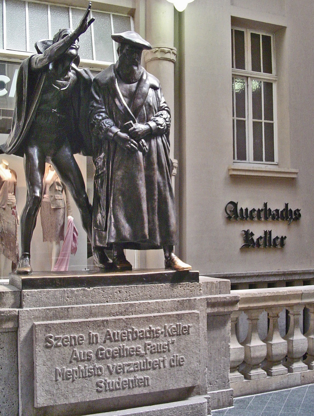 Sculpture of Mephistopheles bewitching the students in the scene "Auerbachs Keller"' from Faust at the entrance of today's pub Auerbachs Keller in Leipzig